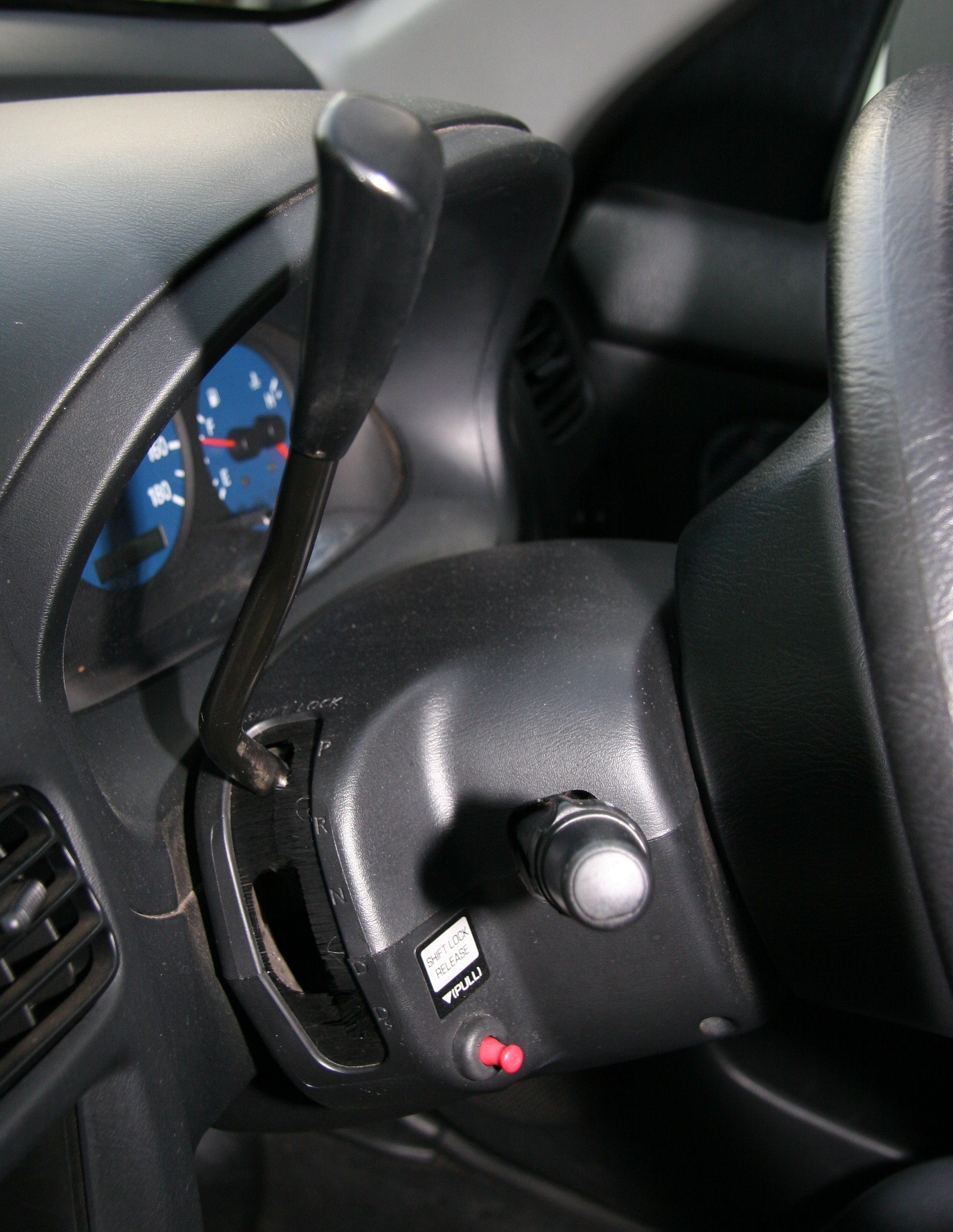 Nissan Cube (Jatco RE0F05A)